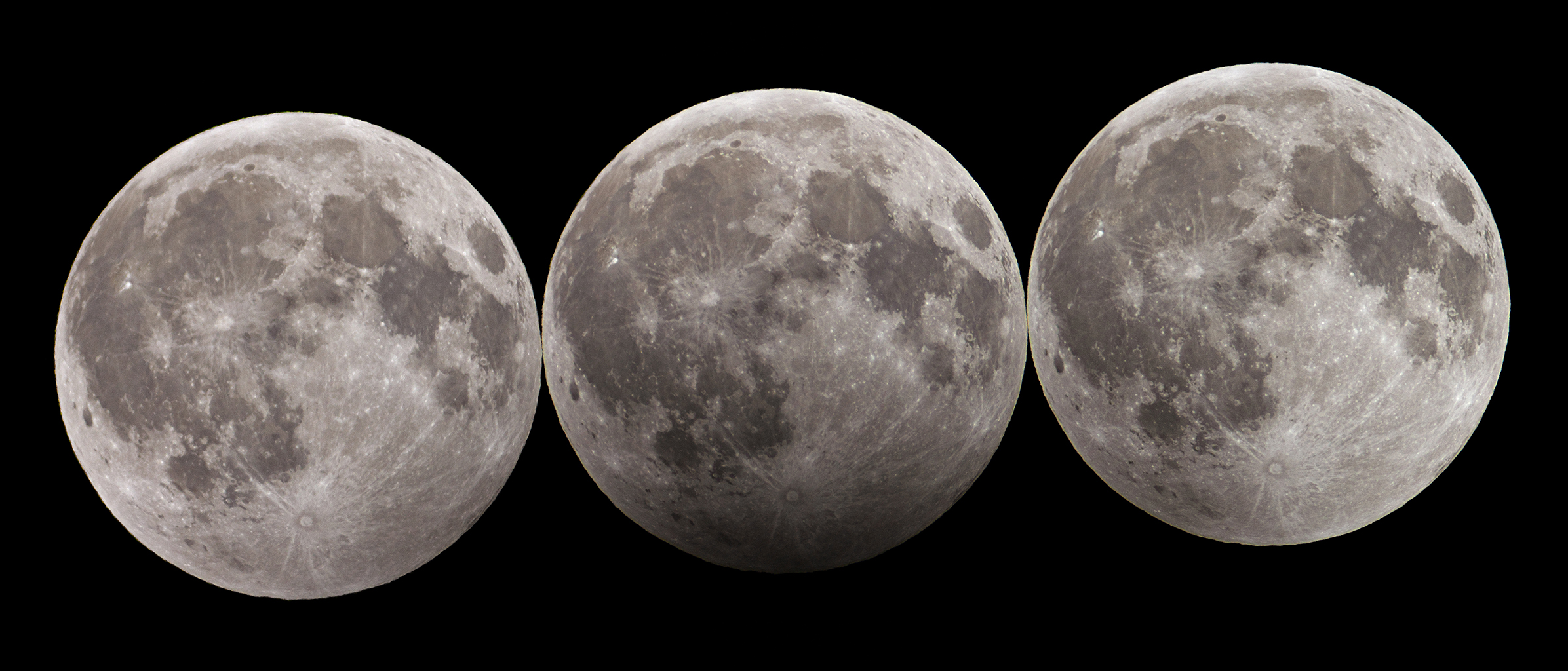 Composite image of the penumbral lunar eclipse on January 10, 2020. The image in the center was taken at 19:10 UT, at maximum eclipse, when about 90% of the Moon has immersed into the Earth's penumbra. The images to the right and the left were taken one hour earlier and later, respectively - exactly the time it took the Moon to travel its own diameter. The images were then carefully stacked in Photoshop, to represent the Moon's true motion trough the Earth's penumbral shadow. Compare this image to similar sequence from the umbral eclipse on July 17, 2019.